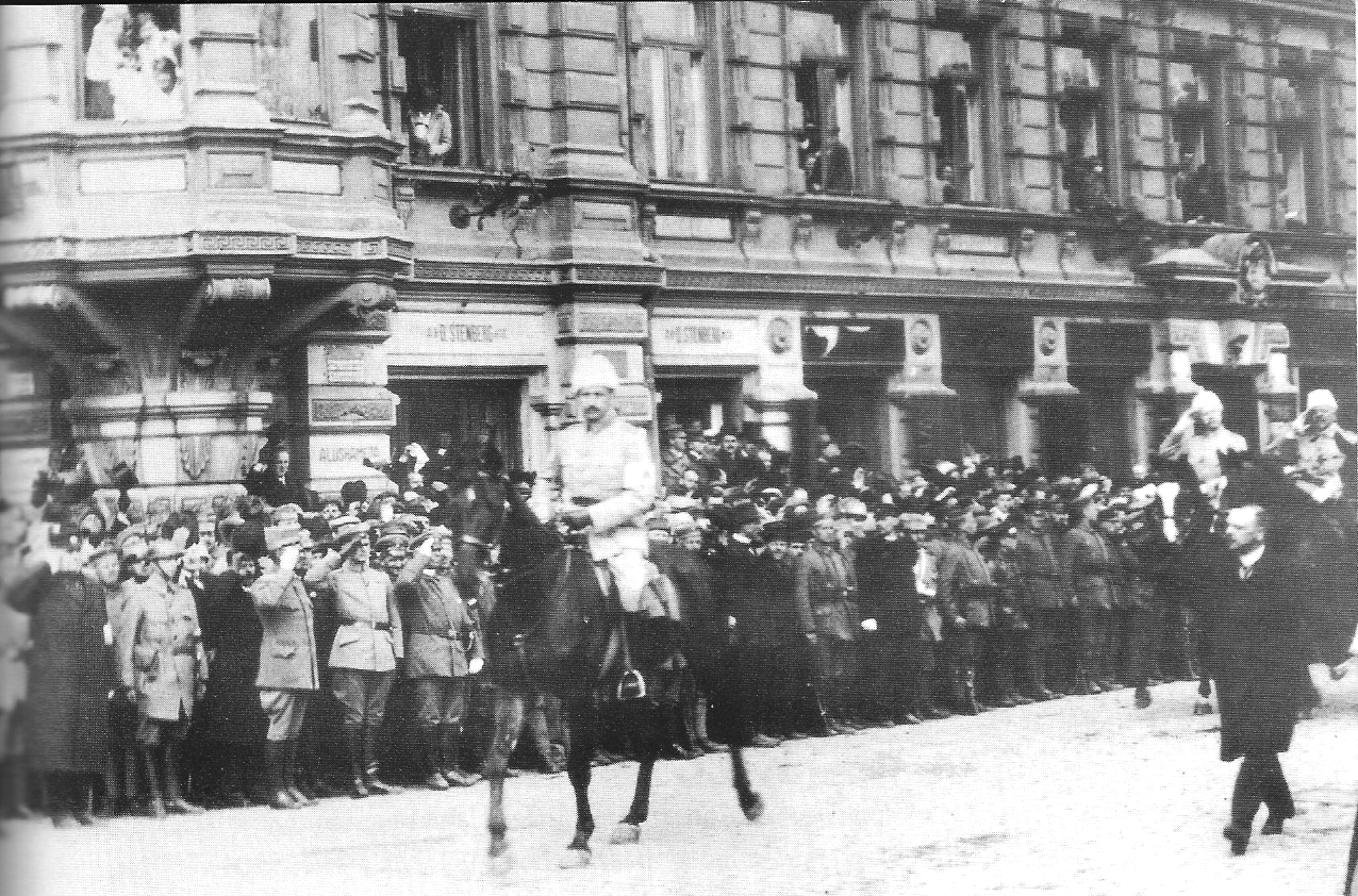 C. G. E. Mannerheim in the Victory Parade in Helsinki after the Finnish Civil War 1918